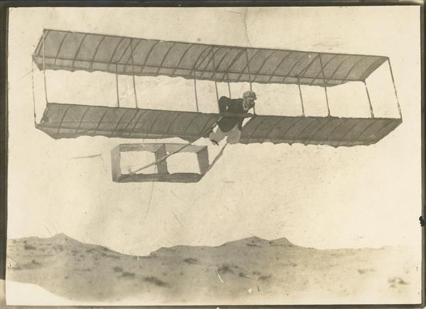 George Augustine Taylor on his first flight at Narrabeen, New South Wales, in his self-constructed glider on 05 December 1909.